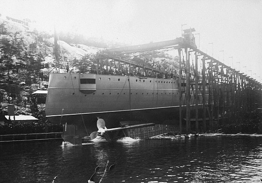 Launching of the Swedish cruiser HMS Fylgia.